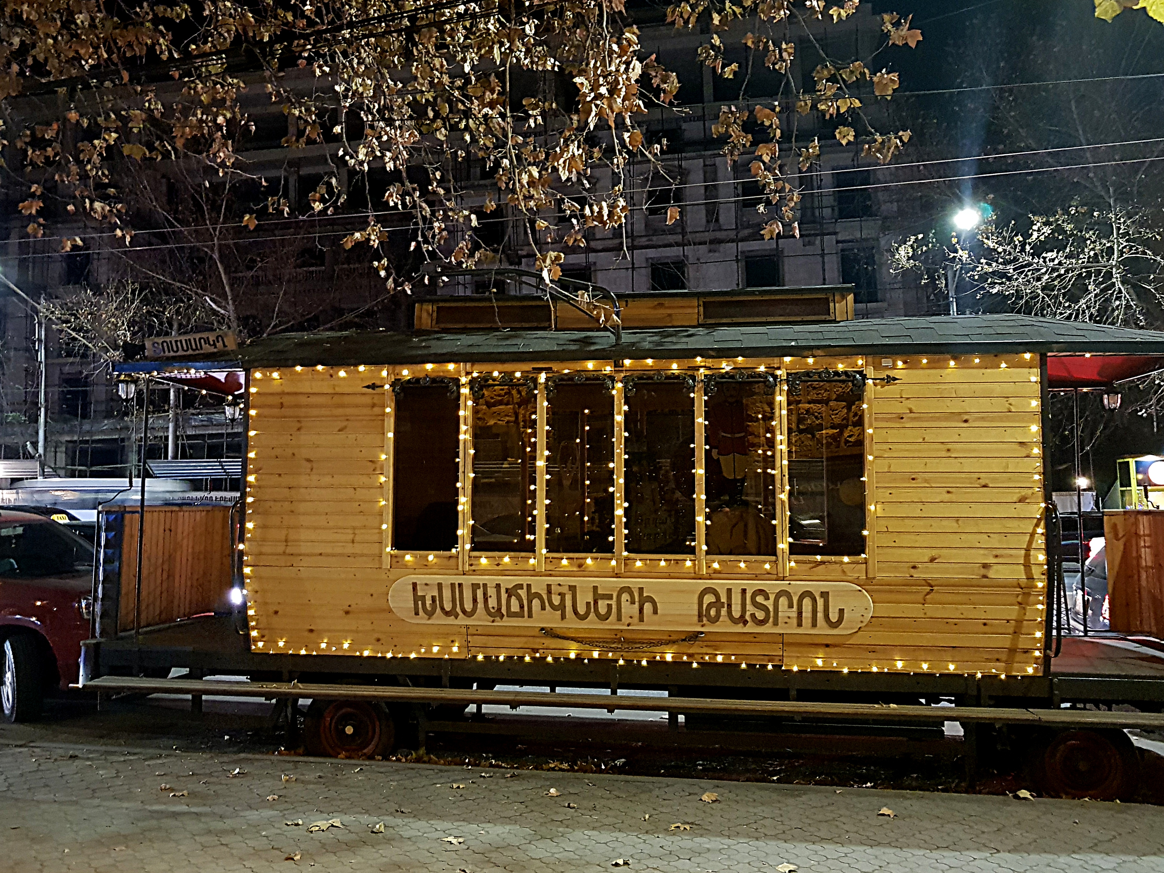 Booth in front of State Marionettes Theatre